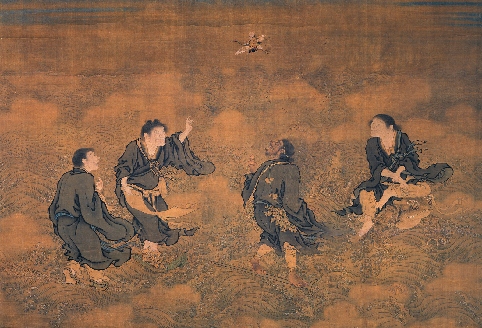 Four Immortals Saluting Longevity, hanging scroll, Color on silk, 98.3 x 143.8 cm. Located at the National Palace Museum, Taibei. The immortals are from left to right: Shide standing on a broom, Hanshan standing on a banana leaf, Iron-Crutch Li standing on a crutch, and Liu Haichan riding a 'Chan Chu' three footed toad. The being riding the crane is the Longevity Star God.